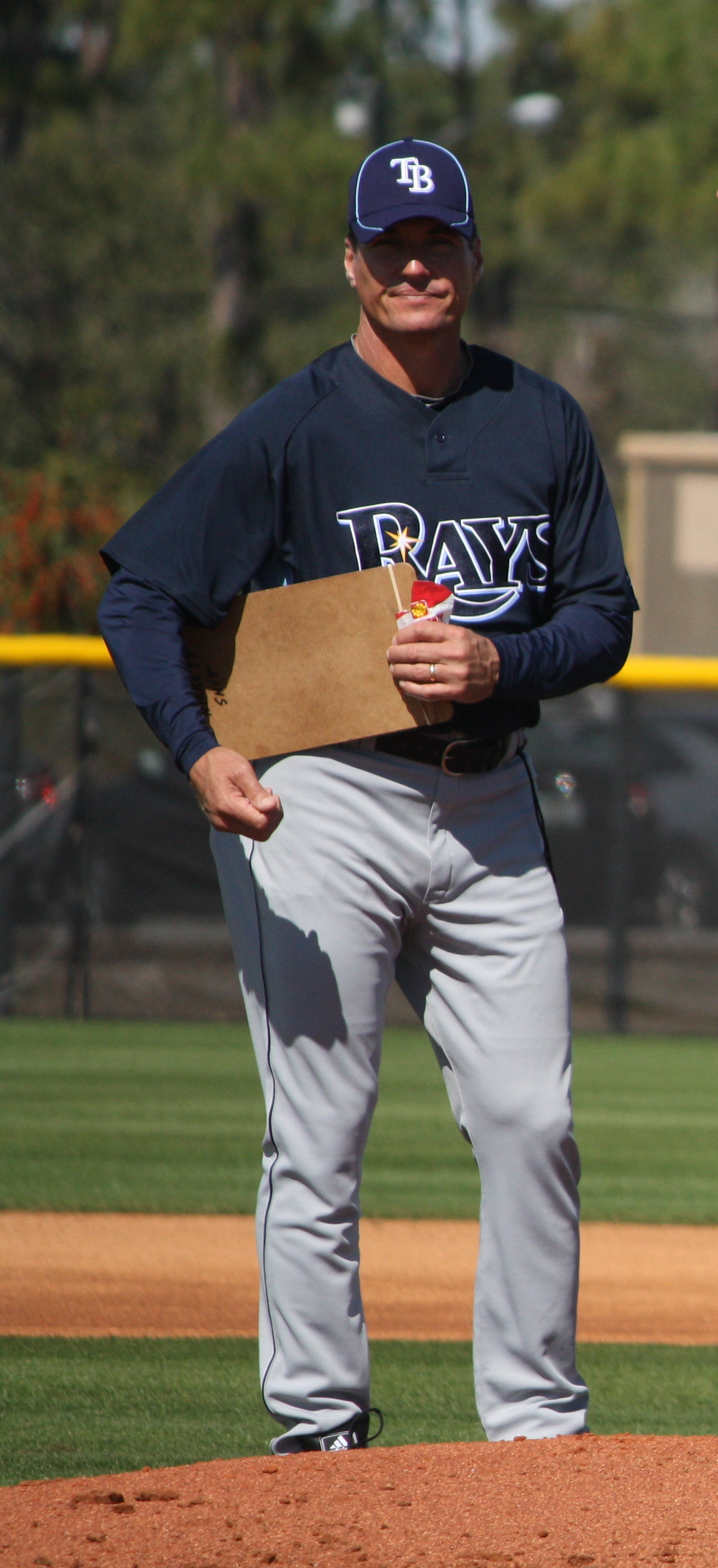 Jim Hickey, pitching coach of the Tampa Bay Rays during spring training workouts at Charlotte Sports Park in Port Charlotte on February 21, 2010.